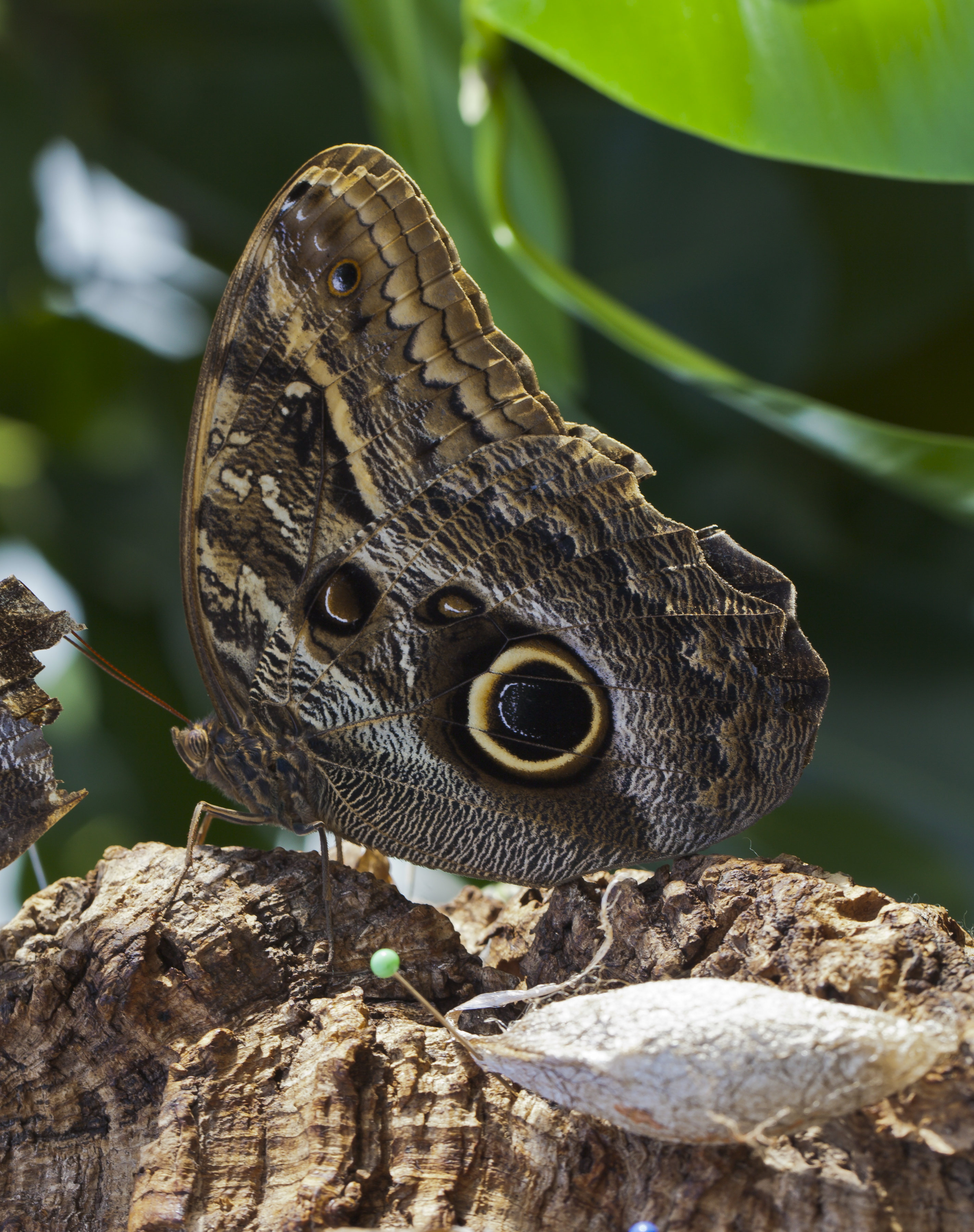 Forest Giant Owl (Caligo eurilochus), Munich Botanic Garden, Germany